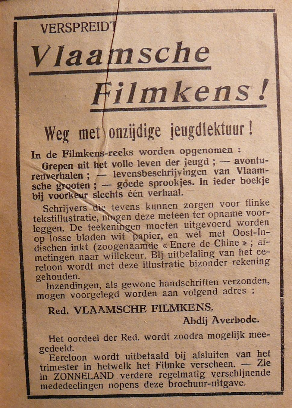 1931 add for the "Vlaamsche Filmkens"